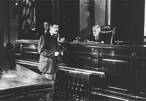 Warren Cook, an actor, stands in front of Judge Mountain Landis's bench in the 1917 government film, The Immigrant.